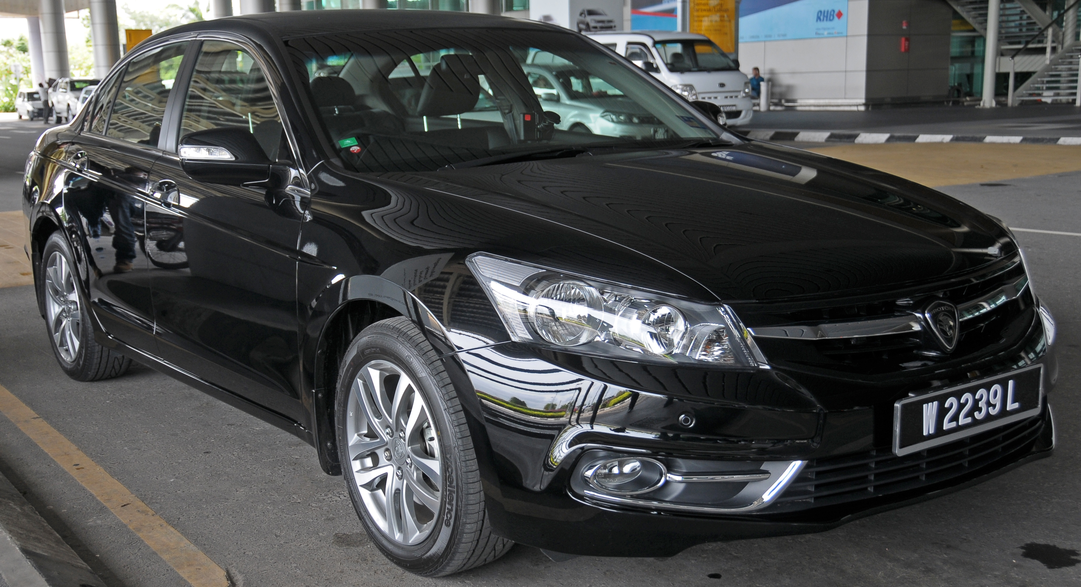 2014 Proton Perdana 2.4P in Kota Kinabalu, Malaysia. Colour : Tranquility Black Designed in Japan , Localized & Manufactured in Malaysia